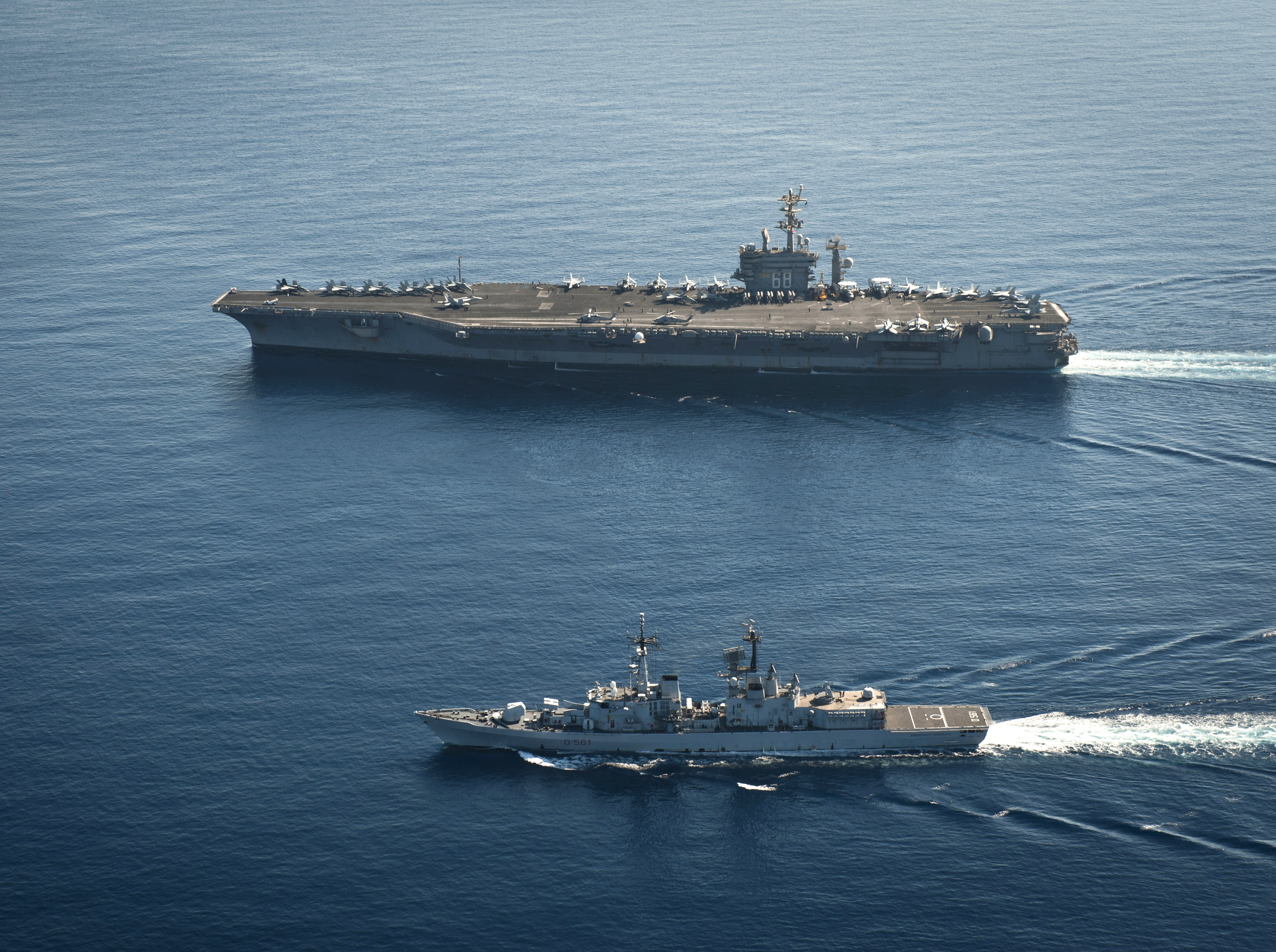 The U.S. Navy aircraft carrier USS Nimitz (CVN-68) and the Italian destroyer Francesco Mimbelli (D 561) are underway during operations in the central Mediterranean Sea. Nimitz, with assigned Carrier Air Wing 11 (CVW-11), was deployed supporting maritime security operations and theater security cooperation efforts in the U.S. 6th Fleet area of operations.